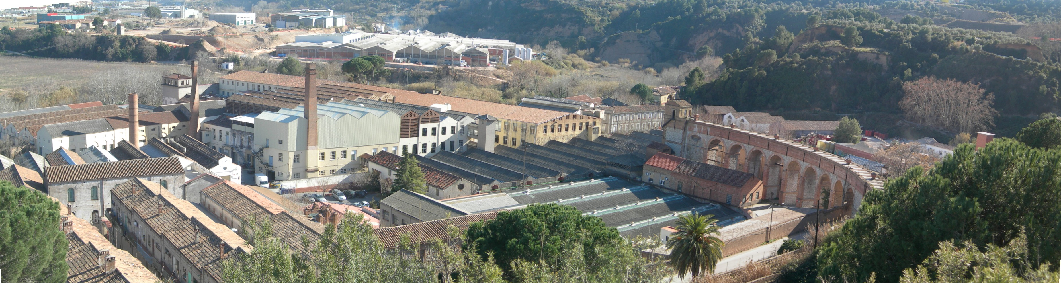 Panoramical view of "la Colònia Sedó", located in Esparreguera